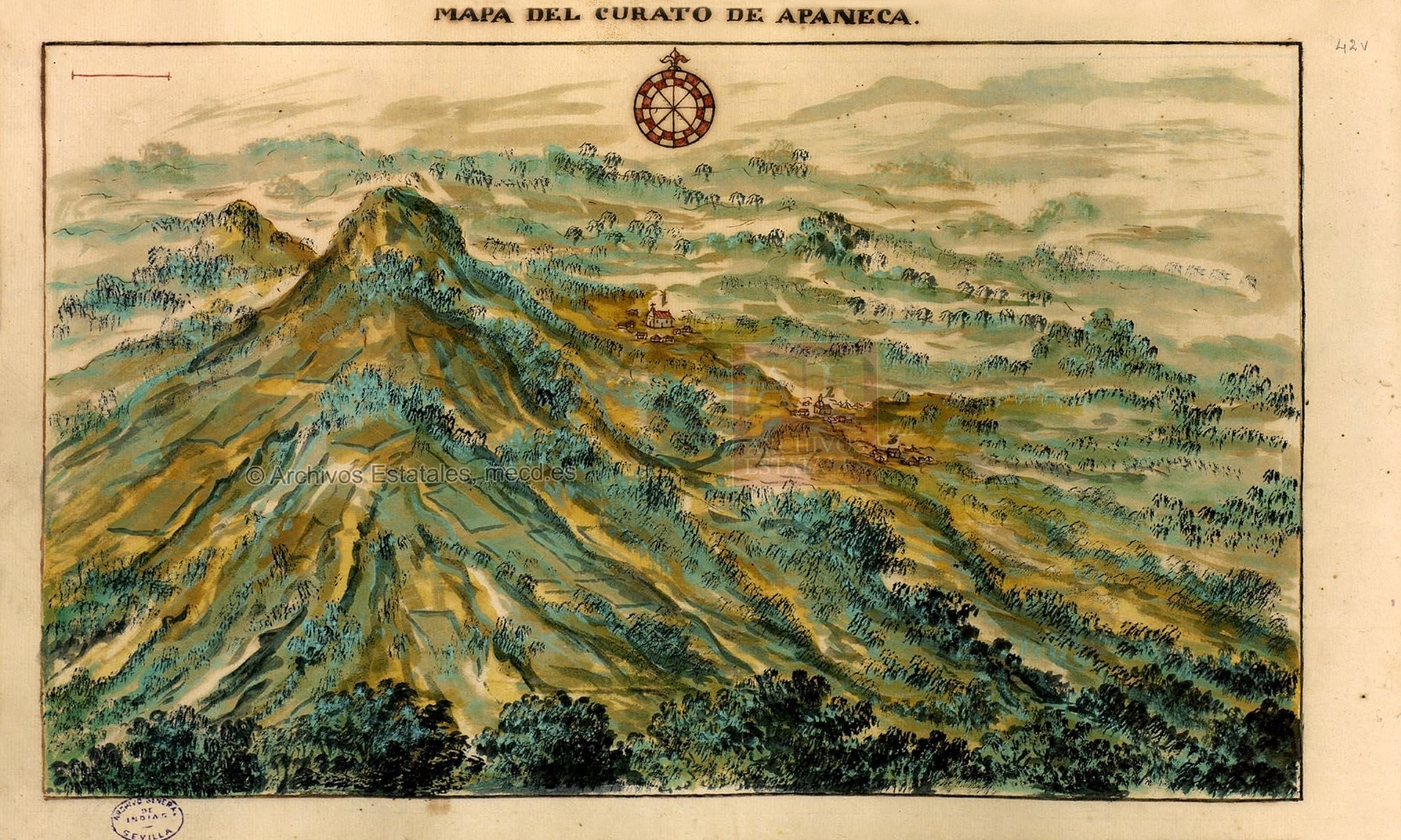 Map of the curato(parish) of Apaneca. The numbers represent the town and its annexes in the following order: 1. Pueblo de Apaneca Cavezera (Head town) 2. Pueblo de Salquatitan 3. Pueblo de Juajua